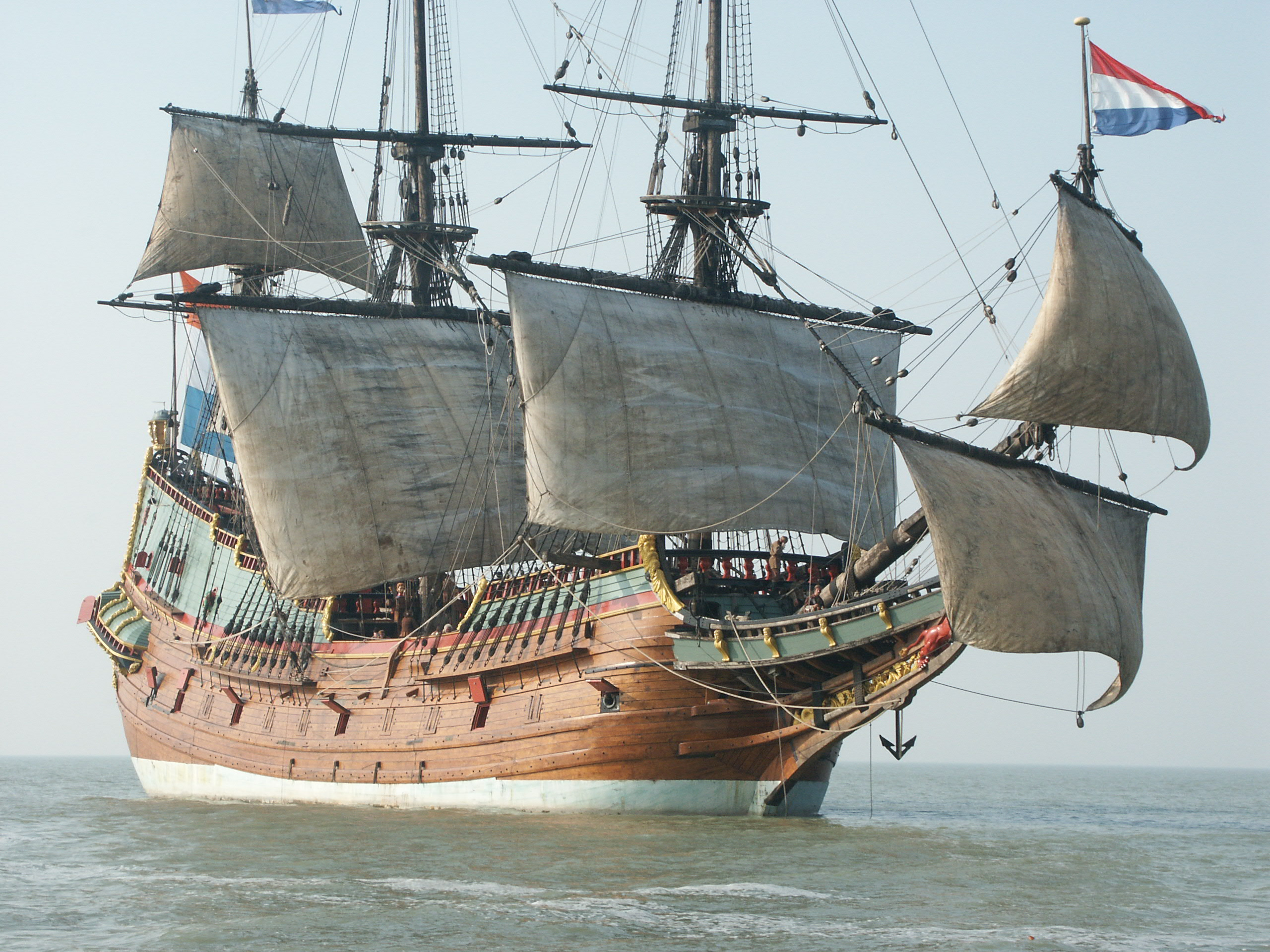 The replica of the Batavia on the Markermeer during a filmshoot